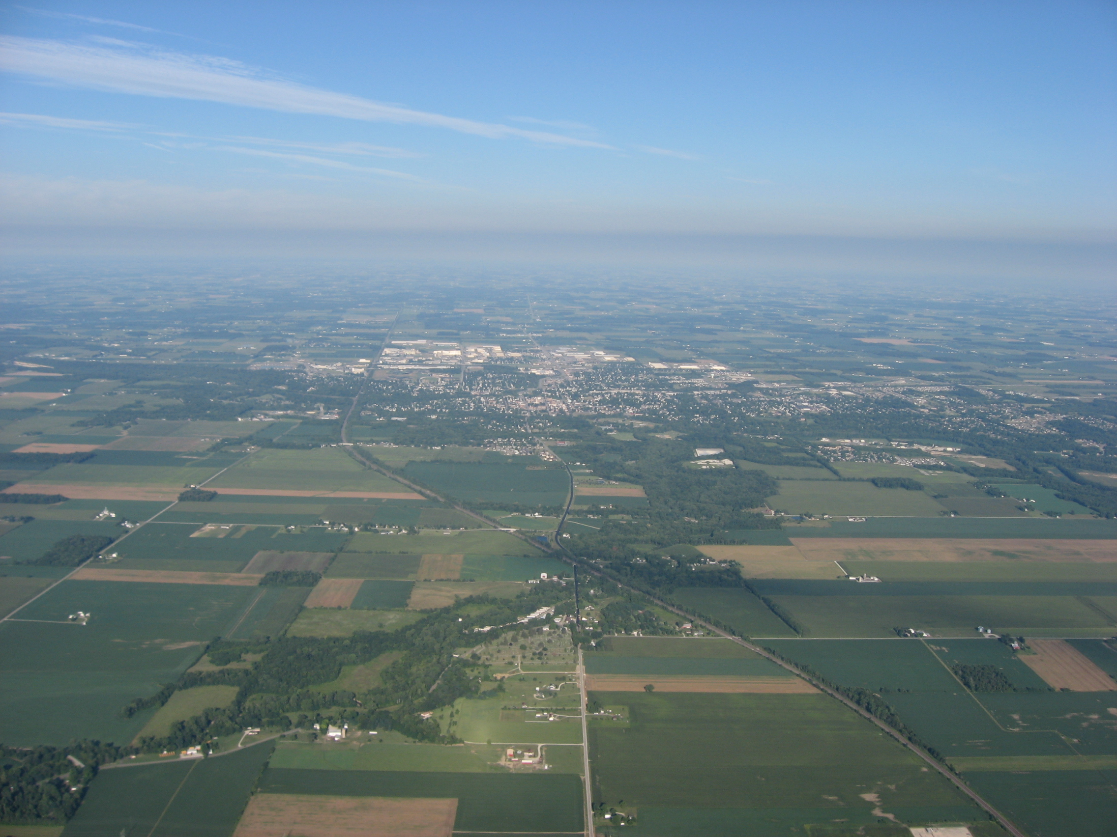 Aerial view of Sidney, a city in Shelby County, Ohio, United States. Picture taken from a Diamond Eclipse light airplane at an altitude of 4,550 feet MSL and a bearing of approximately 275º.